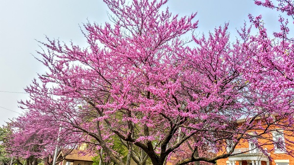 The Columbus Redbud Columbus Strain